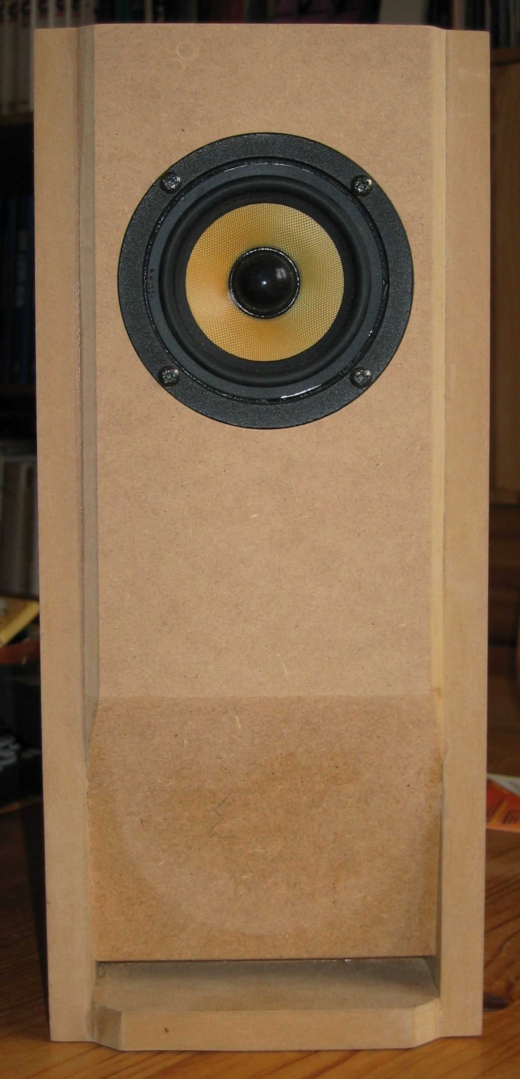 Acoustic transmission line loudspeaker